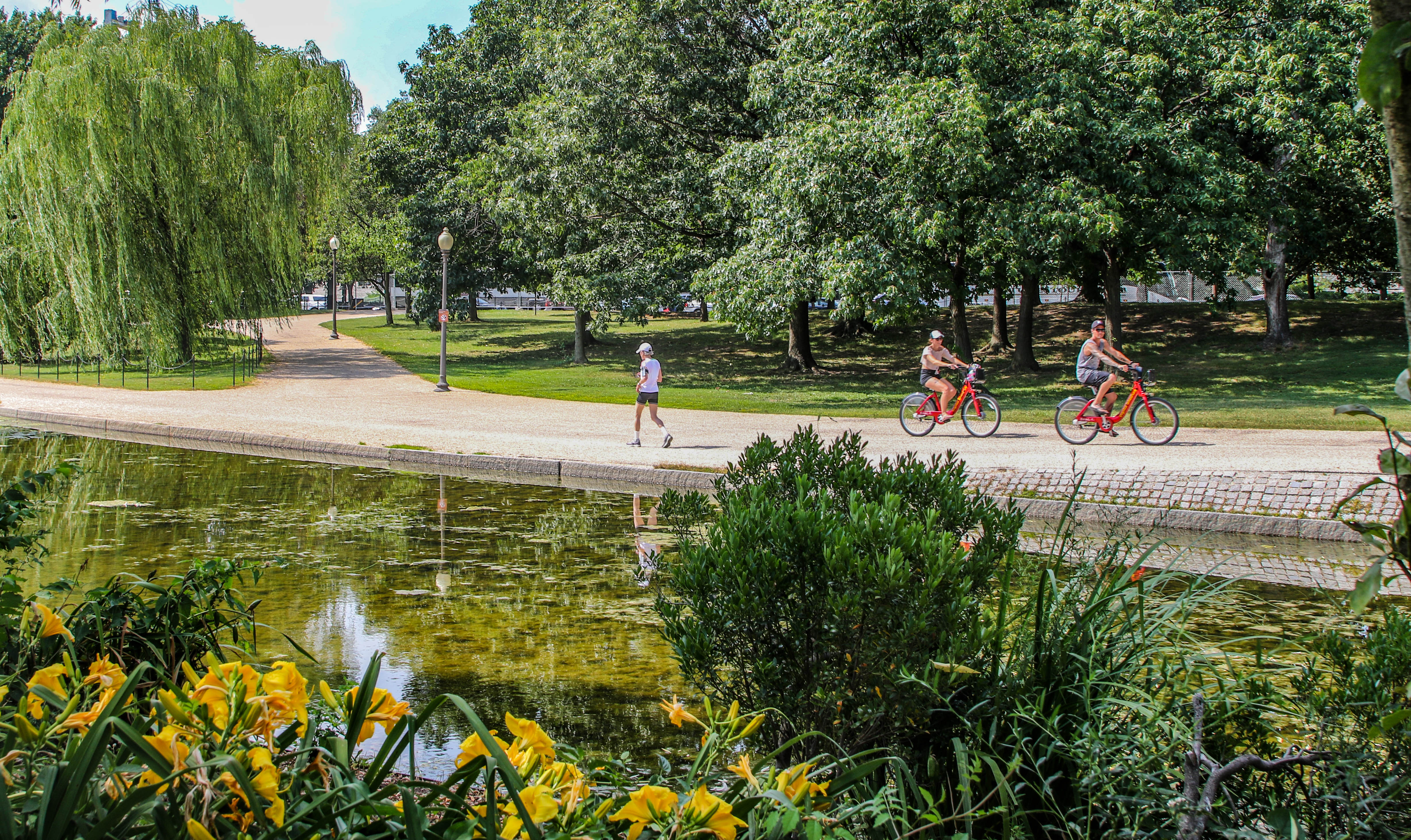 Jogger and two bicyclists on a path by a pond Constitution Gardens, DC Keywords: Constitution Gardens; COGA; National Mall & Memorial Parks; NAMA; National Mall; DC; District of Columbia; visitors; recreation; biking; running